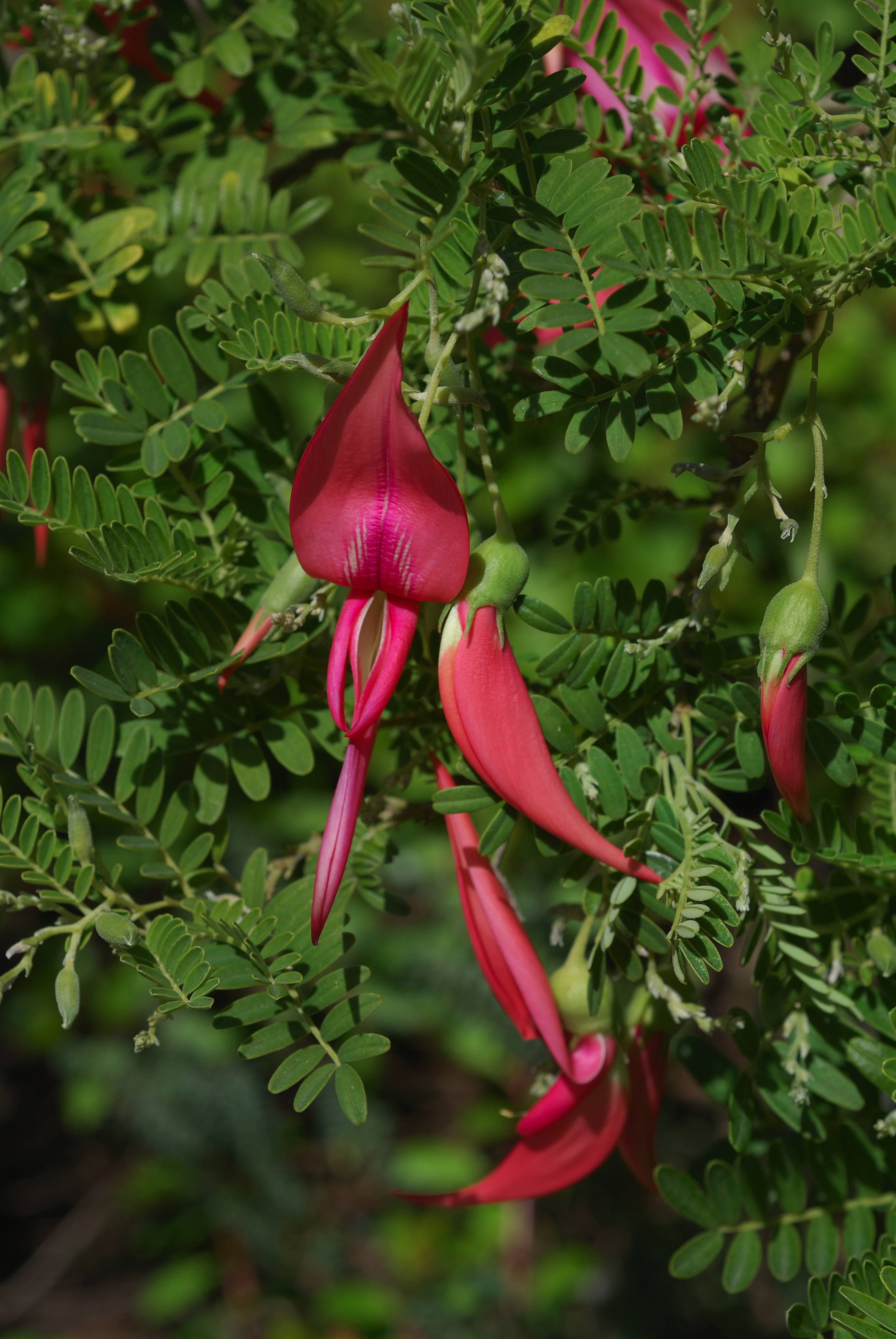 Common name: Kaka Beak, Red Kowhai Species from the North Island, New Zealand Photographed at the UC Berkeley Botanical Garden